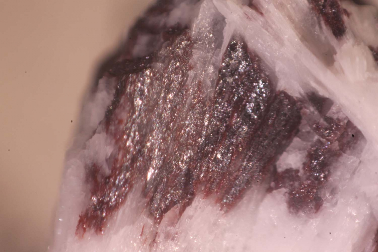 Metallic crystals of the extremely rare mineral uchucchacuaite in matrix. Uchucchacuaite in visible crystals is a very sought after mineral. Probably from the type locality at Uchucchacua Mine, although the label accompanying the specimen indicates the locality to be "Orcopampa, Peru" (Orcopampa District, Arequipa Department, Peru). Specimen formerly in the collection of Dr. Wilke (1984).